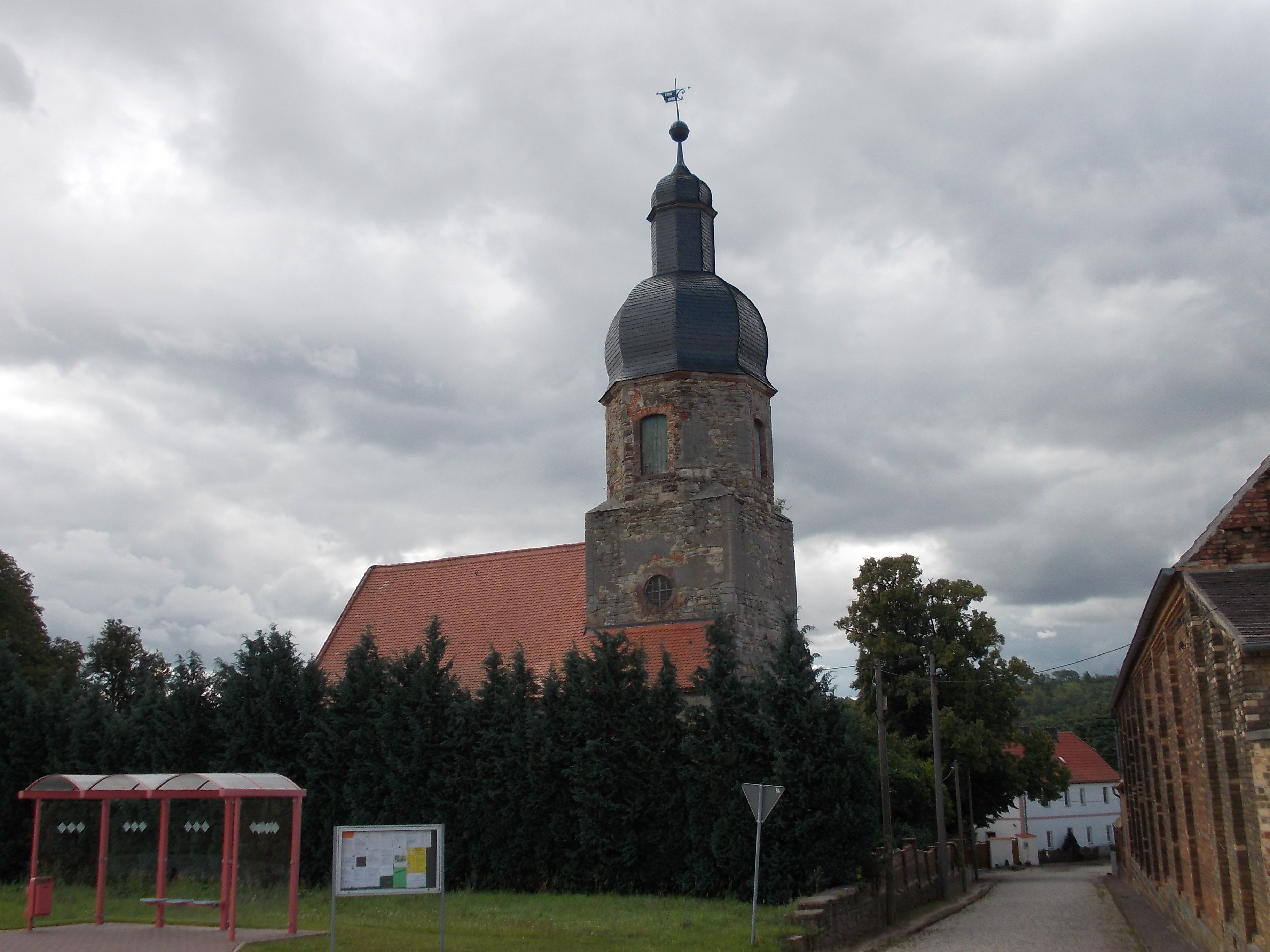 Oberklobikau church (Bad Lauchstädt, district of Saalekreis, Saxony-Anhalt)